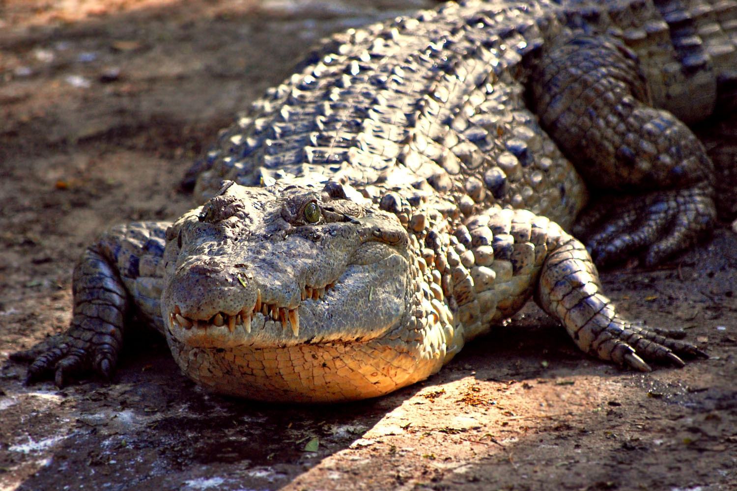 An adult Crocodylus mindorensis basks in the morning sun. Photographed in 2012 on the island of Palawan in the Philippines by Gregg Yan.